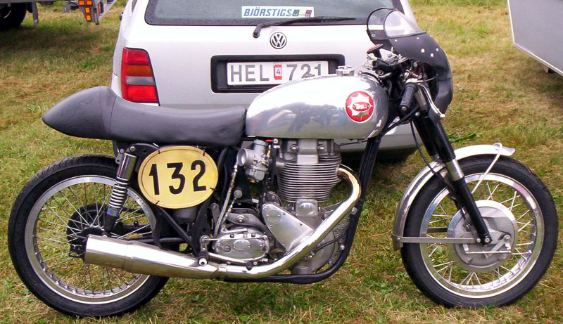 BSA Gold Star 500 cc 1954